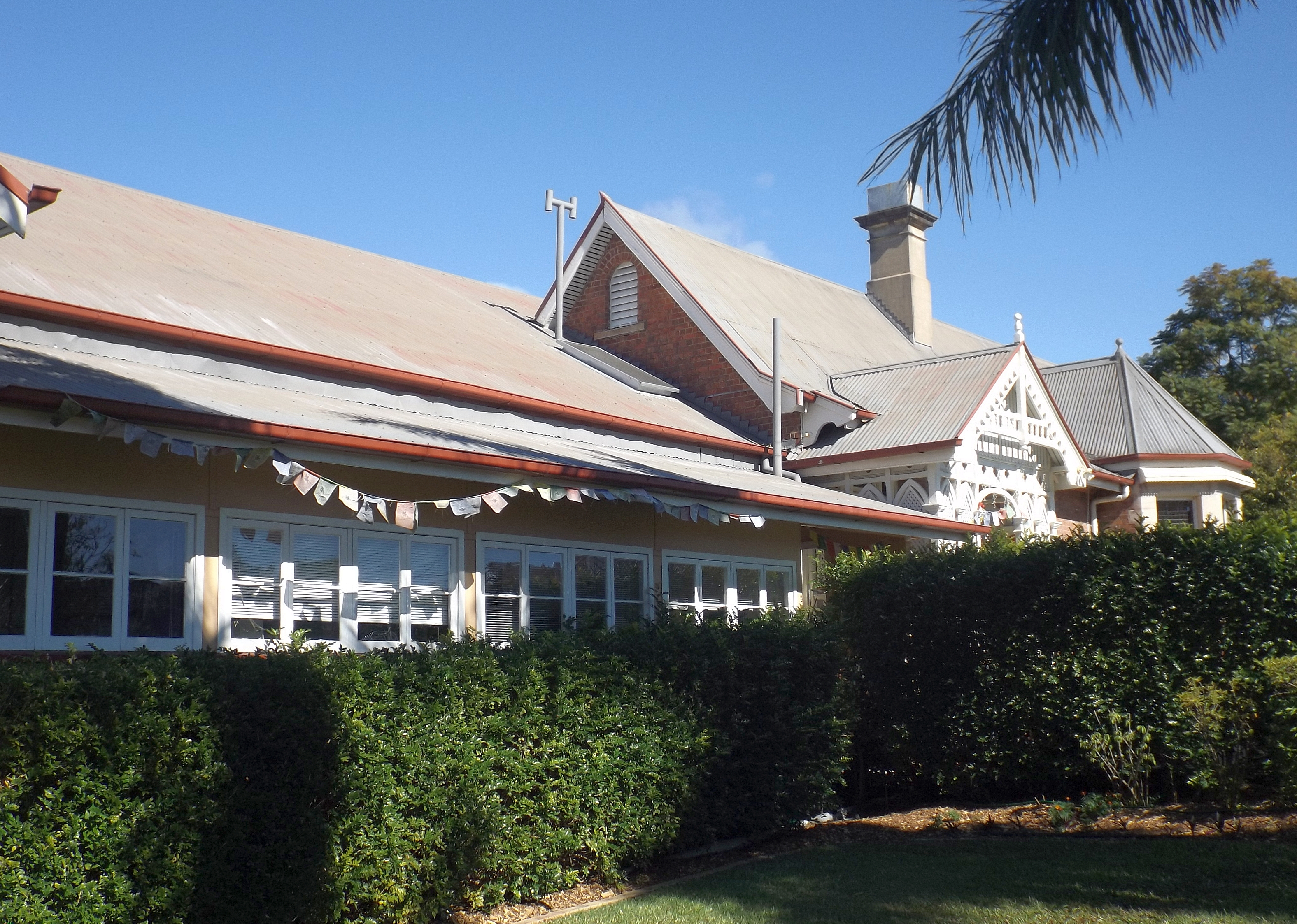 Photo of Rosemount Hospital and garden at Windsor, Brisbane, Queensland, Australia.